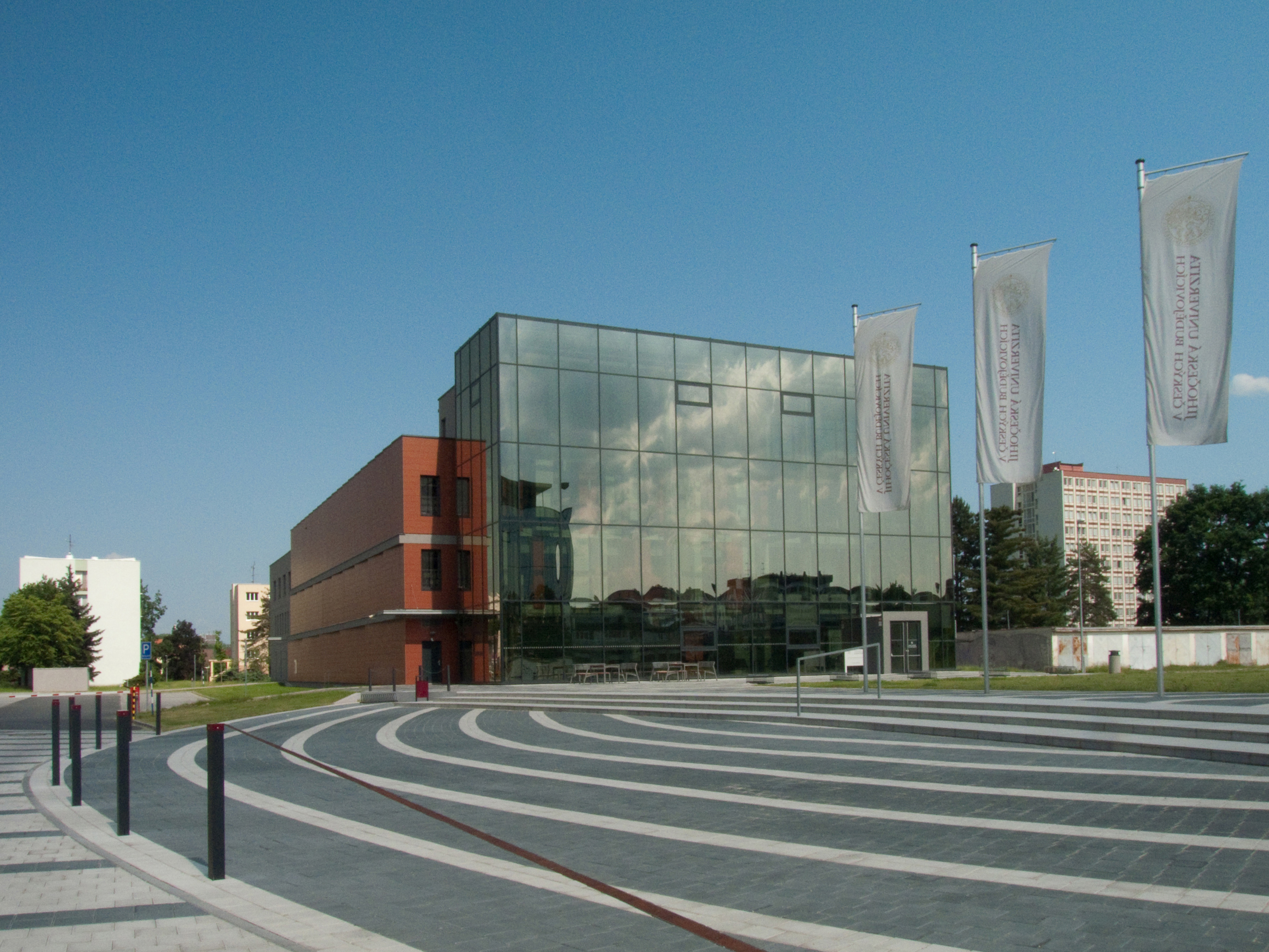 New college library in České Budějovice, Czech Republic opened on 18th January 2010.